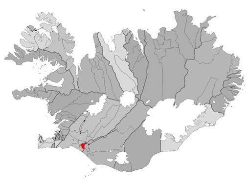 Villingaholtshreppur, Icelandic municipality Own work based on Image:Municipalities_of_Iceland.png using The Gimp